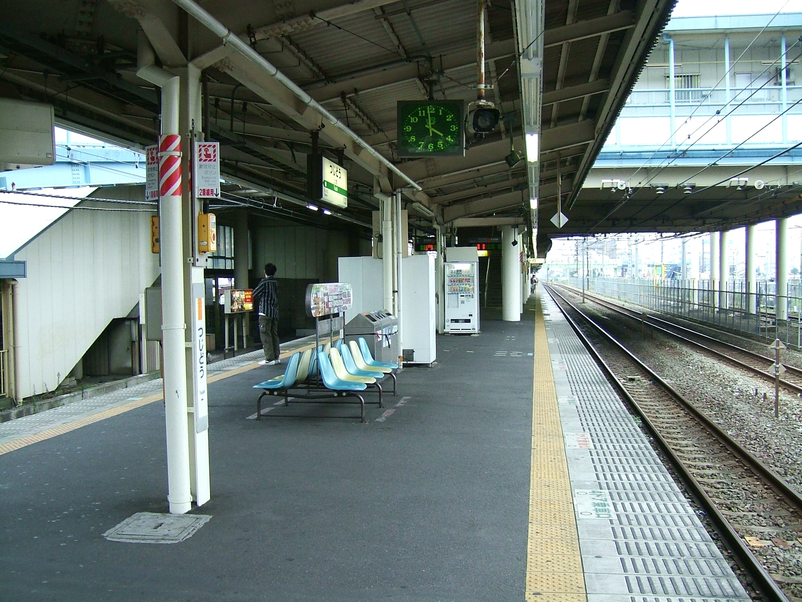 The platforms of Tsujido Station on the Tokaido Line